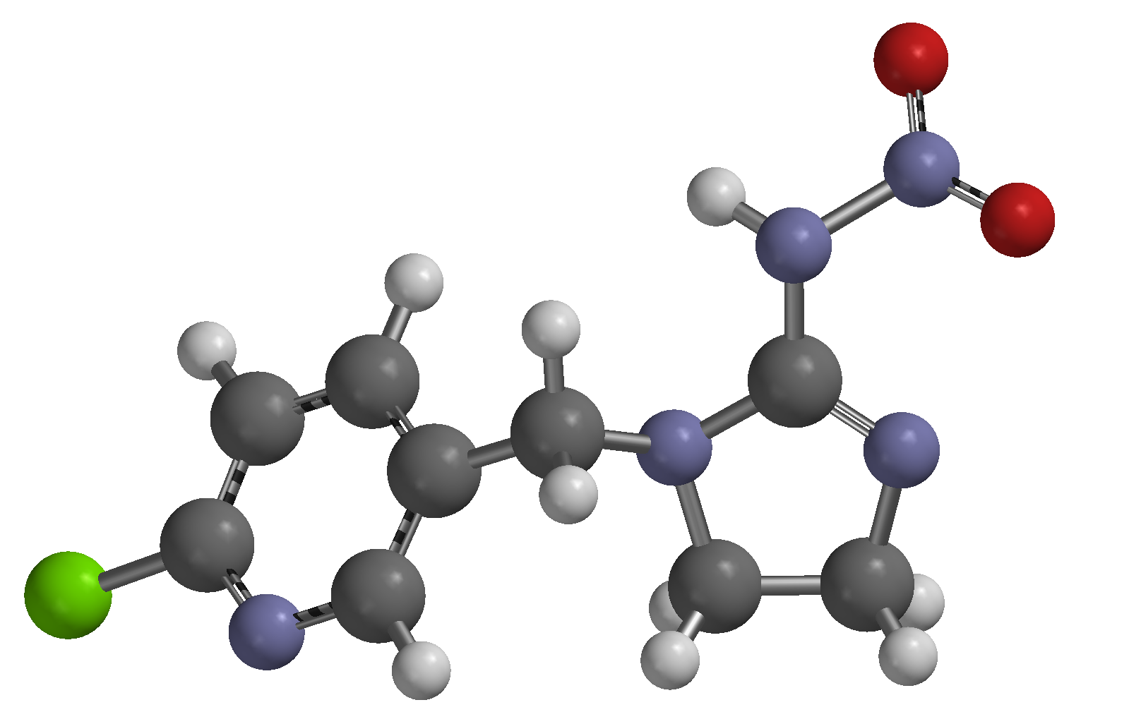 ball and spoke model of the neonicotinoid molecule, imidacloprid.